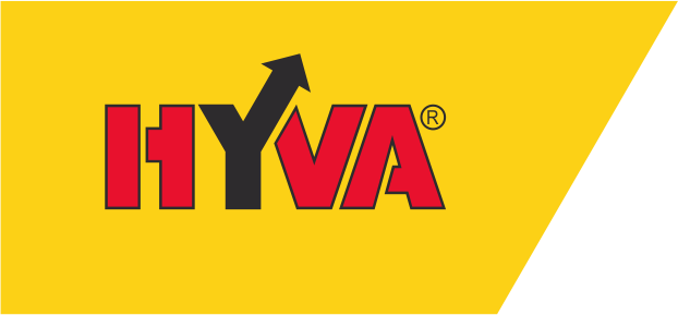 Hyva brand logo